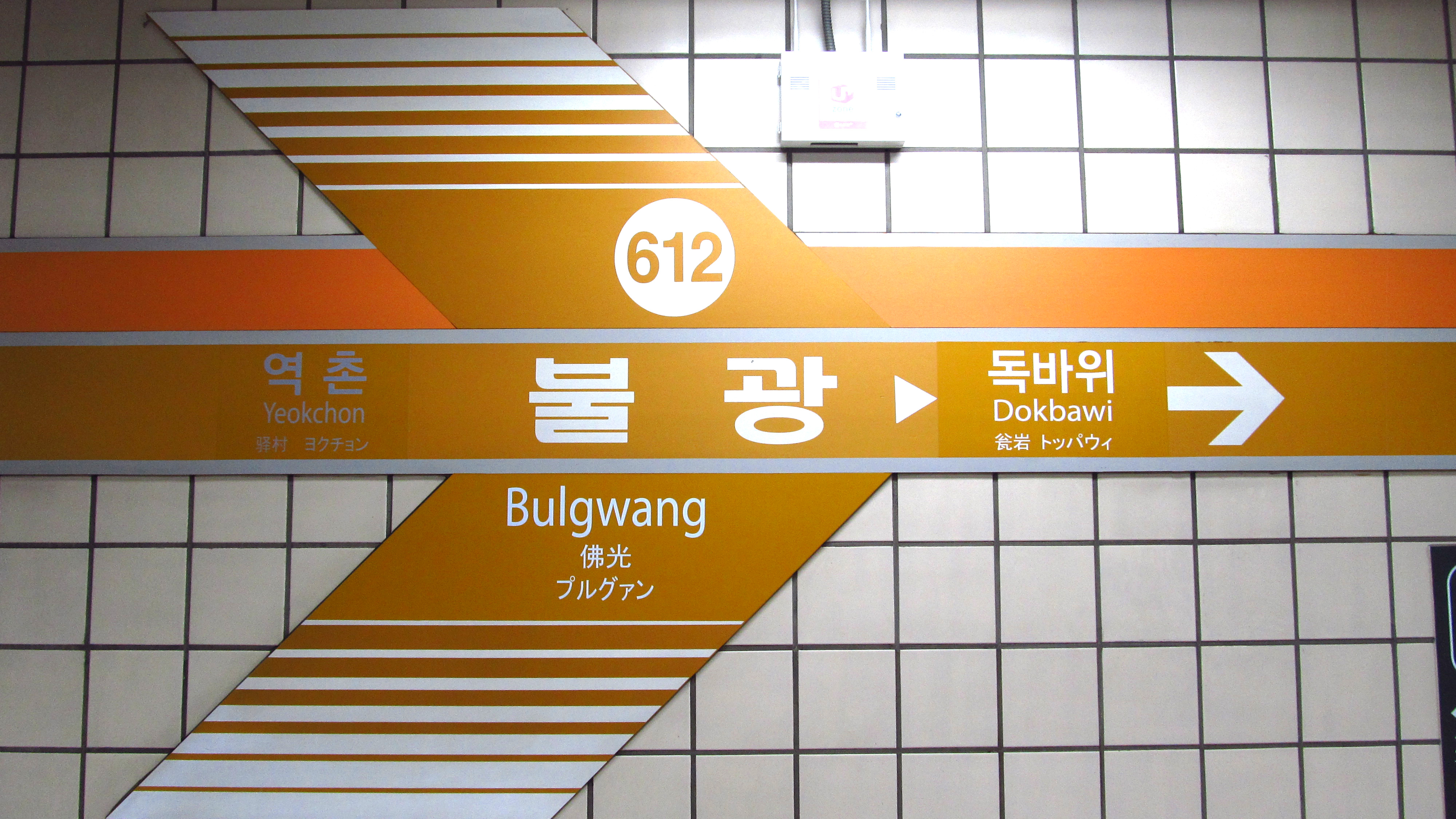 A sign of Bulgwang Station on Seoul Subway Line 6